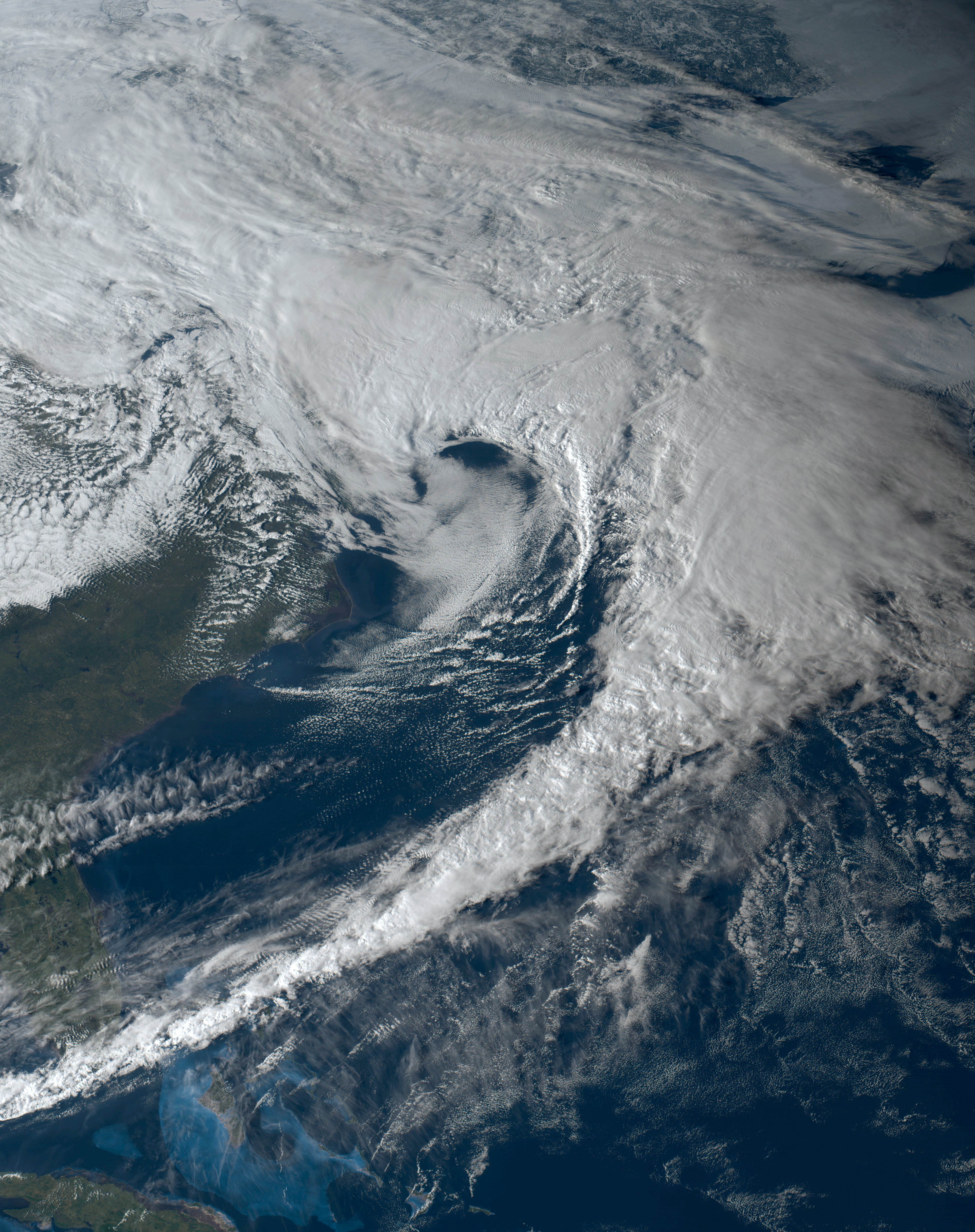 GOES-16 image of a potent nor'easter impacting the Northeastern U.S. at 21:01 UTC (4:00 p.m. EST) on March 7, less then a week after a previous such storm hit the region.